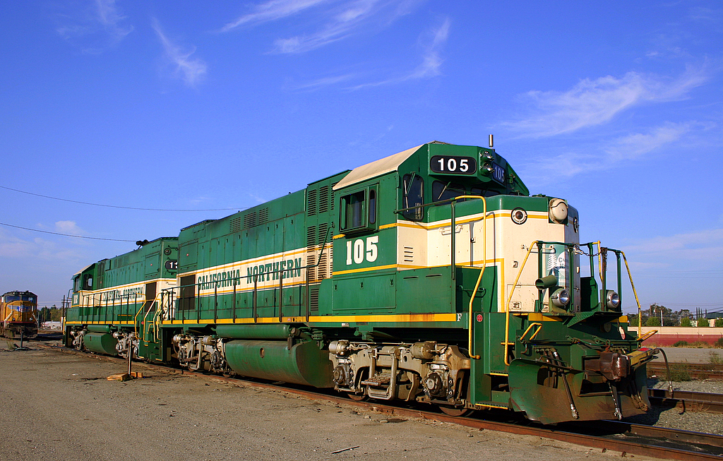 California Northern / Found at Tracy, CA California Northern Railroad 105, EMD GP15-1